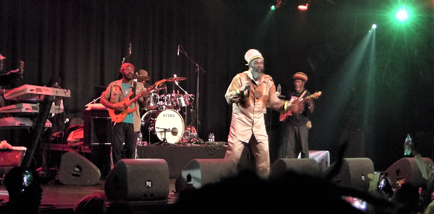 Capleton performing at Melkweg, Amsterdam on the 8th of August, 2018. The Kingdom of the Netherlands.